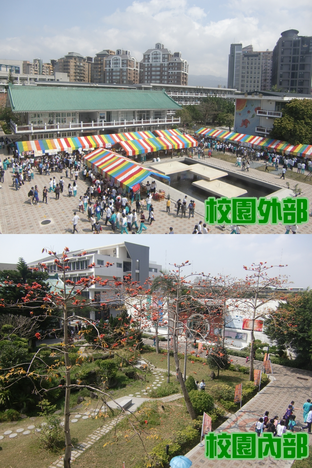 Taipei Municipal Yangming Senior High School Kapok Festival